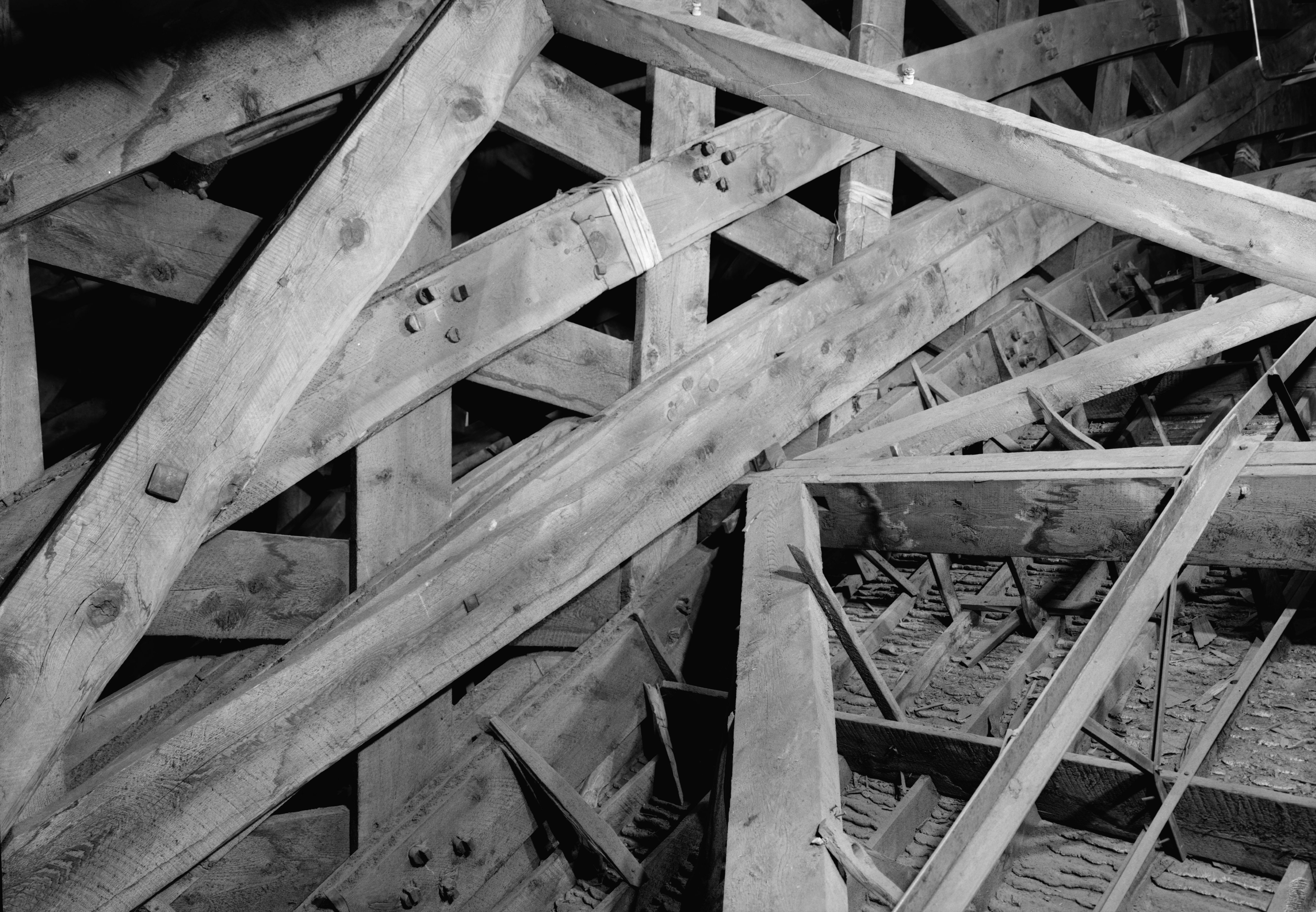 Detail of the carpentry roof of the domed Salt Lake Tabernacle of The Church of Jesus Christ of Latter-day Saints. Note the wooden pegs and beams bound together by strips of rawhide.